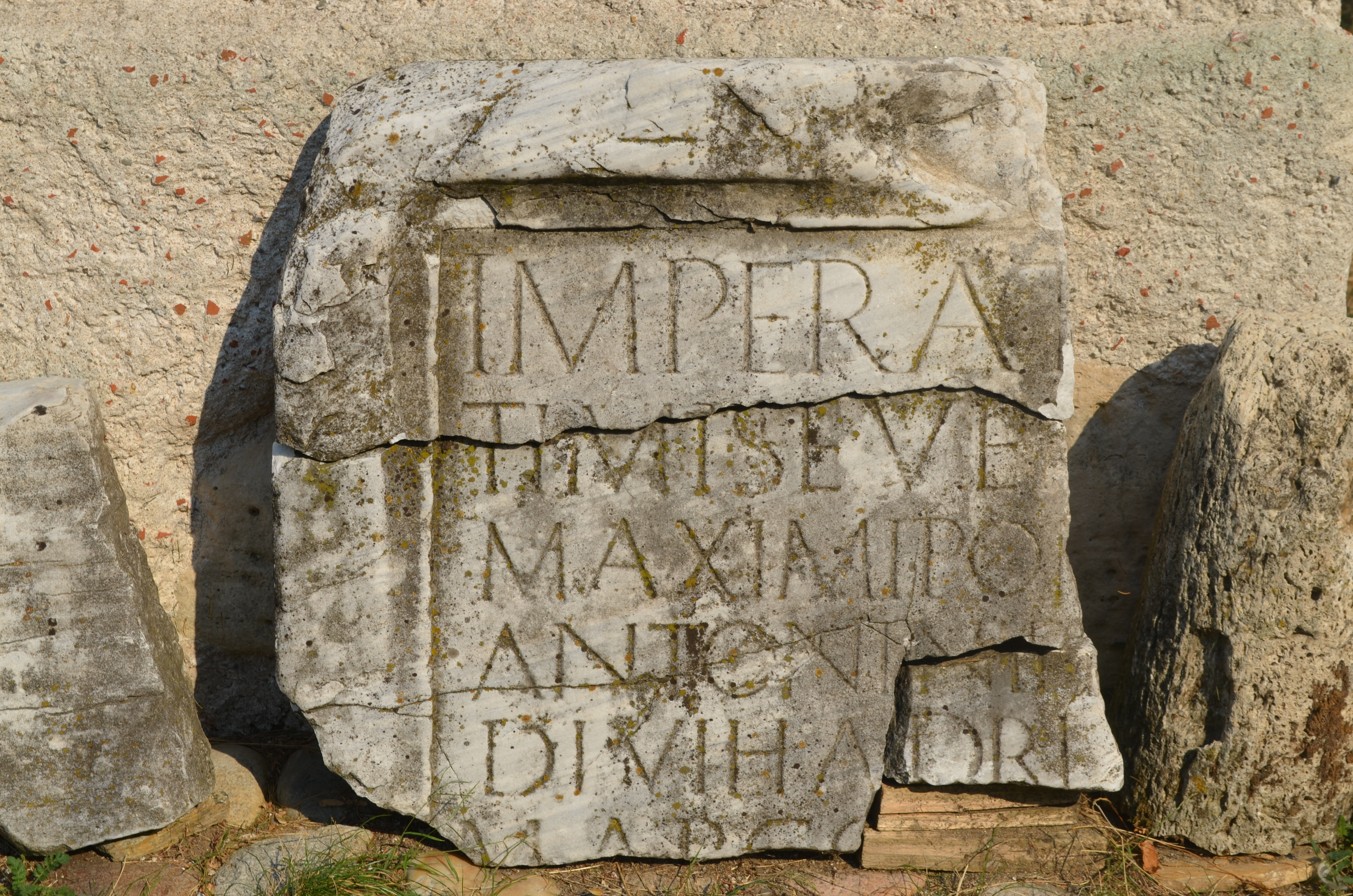 Stone with latin words near Densuș Church (CIL III 1453) (IDR III,2 77)